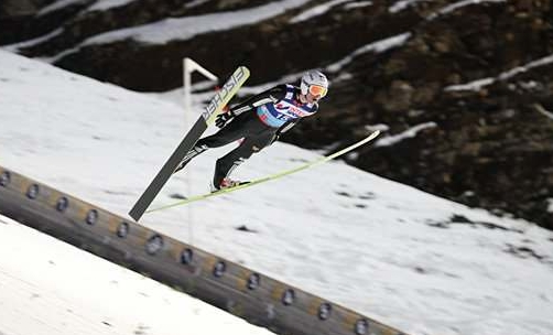 Jakub Janda during canceled competition of FIS Ski-Flying World Championships 2012 in Vikersund